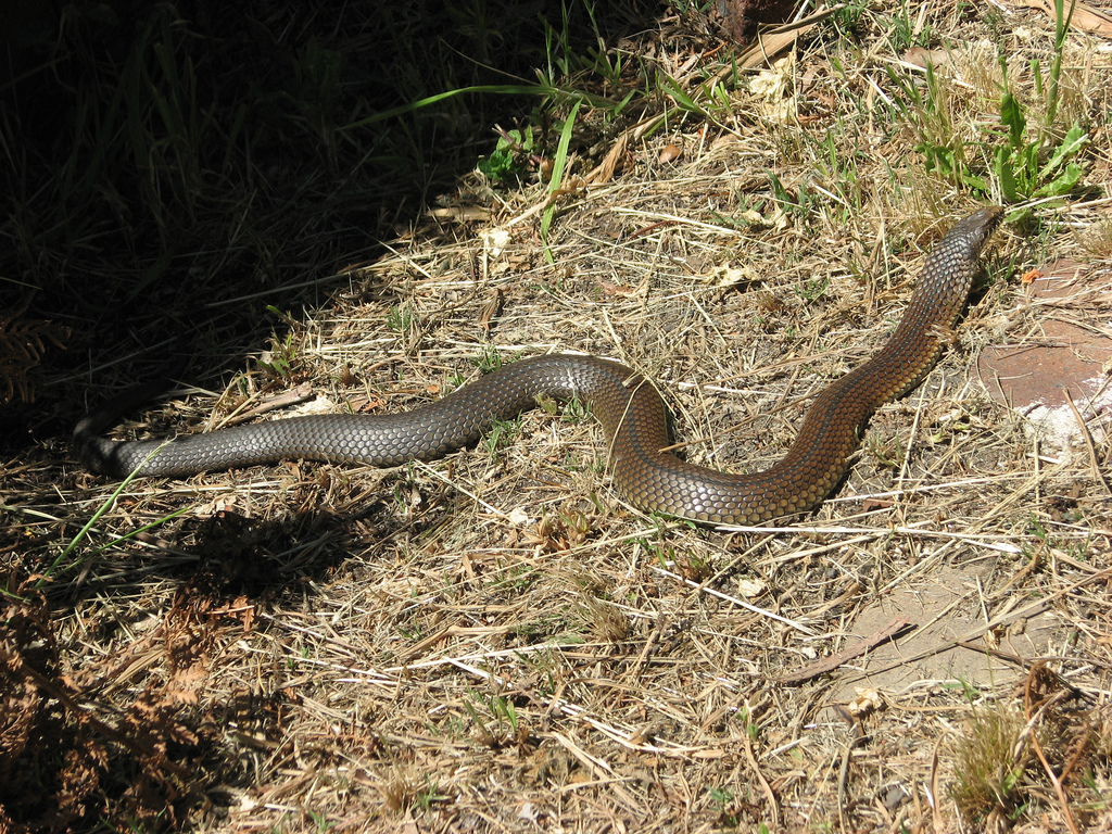 Austrelaps superbus, lowland copperhead (Australia).